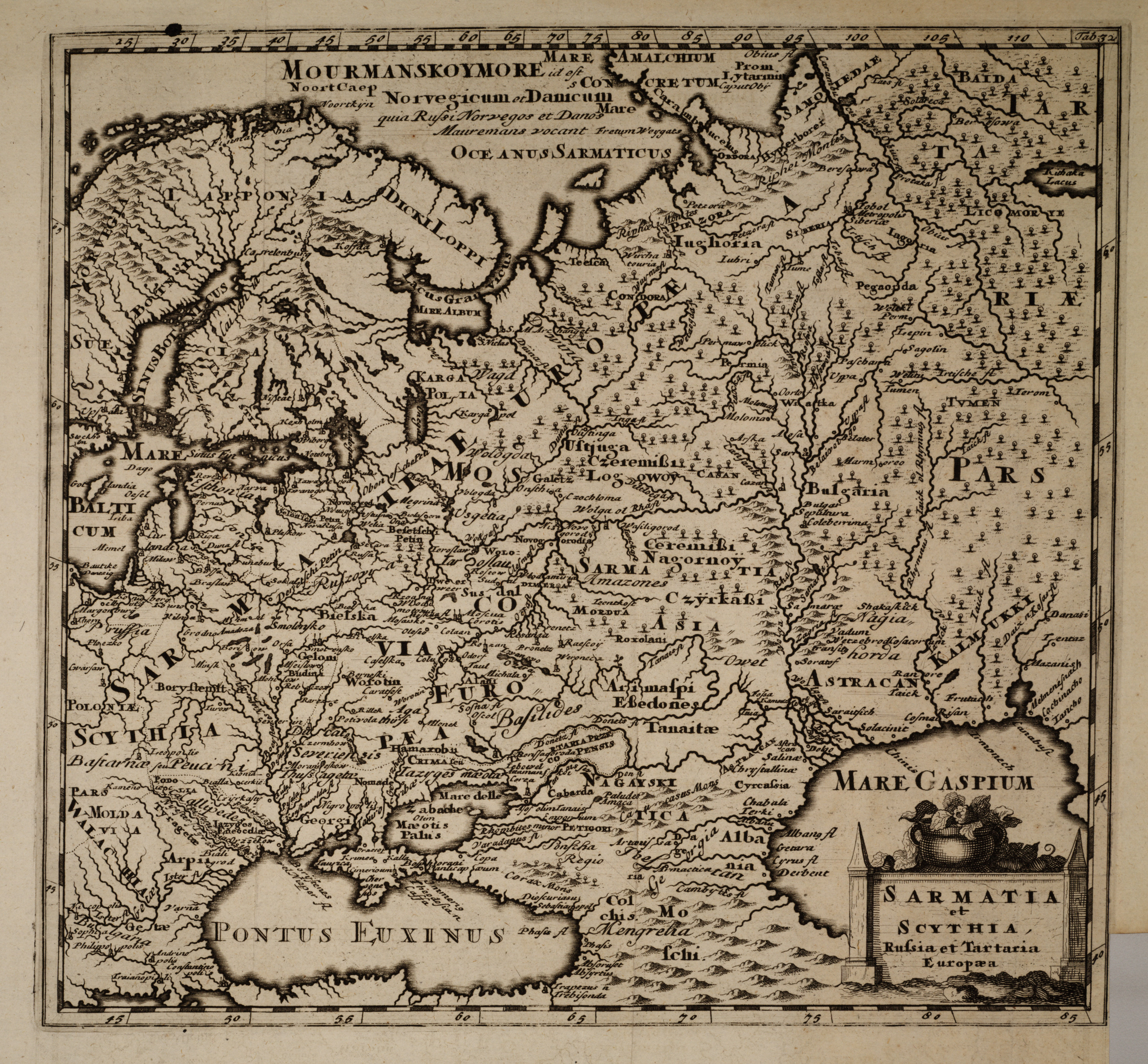 Sarmatia et Scythia, Russia et Tartarta Europaea